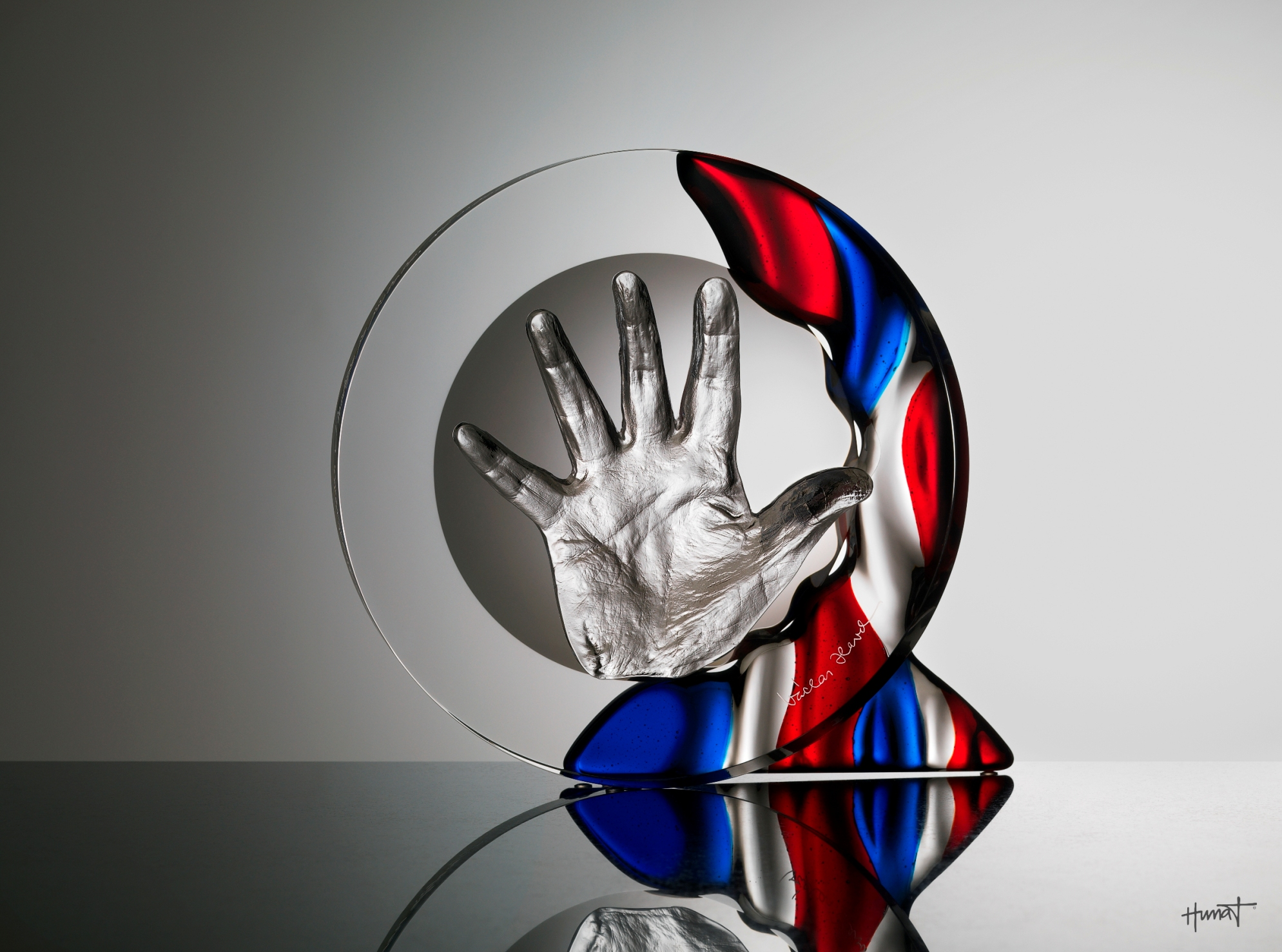 Vaclav Havel's hand print created in crystal glass - The Crystal Touch Česky: Otisk dlaně Václava Havla v křišťále - jeho Křišťálový Dotek